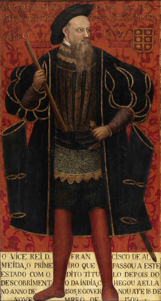 "Portrait of Dom Francisco de Almeida, Viceroy of Portuguese India" (after 1545), by Unknown. At the National Museum of Ancient Art, Lisbon.